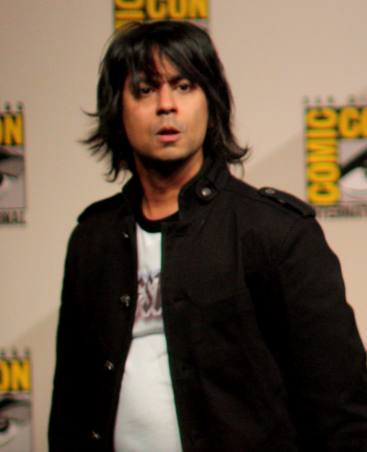 Vik Sahay at the 2009 Comic Con in San Diego.